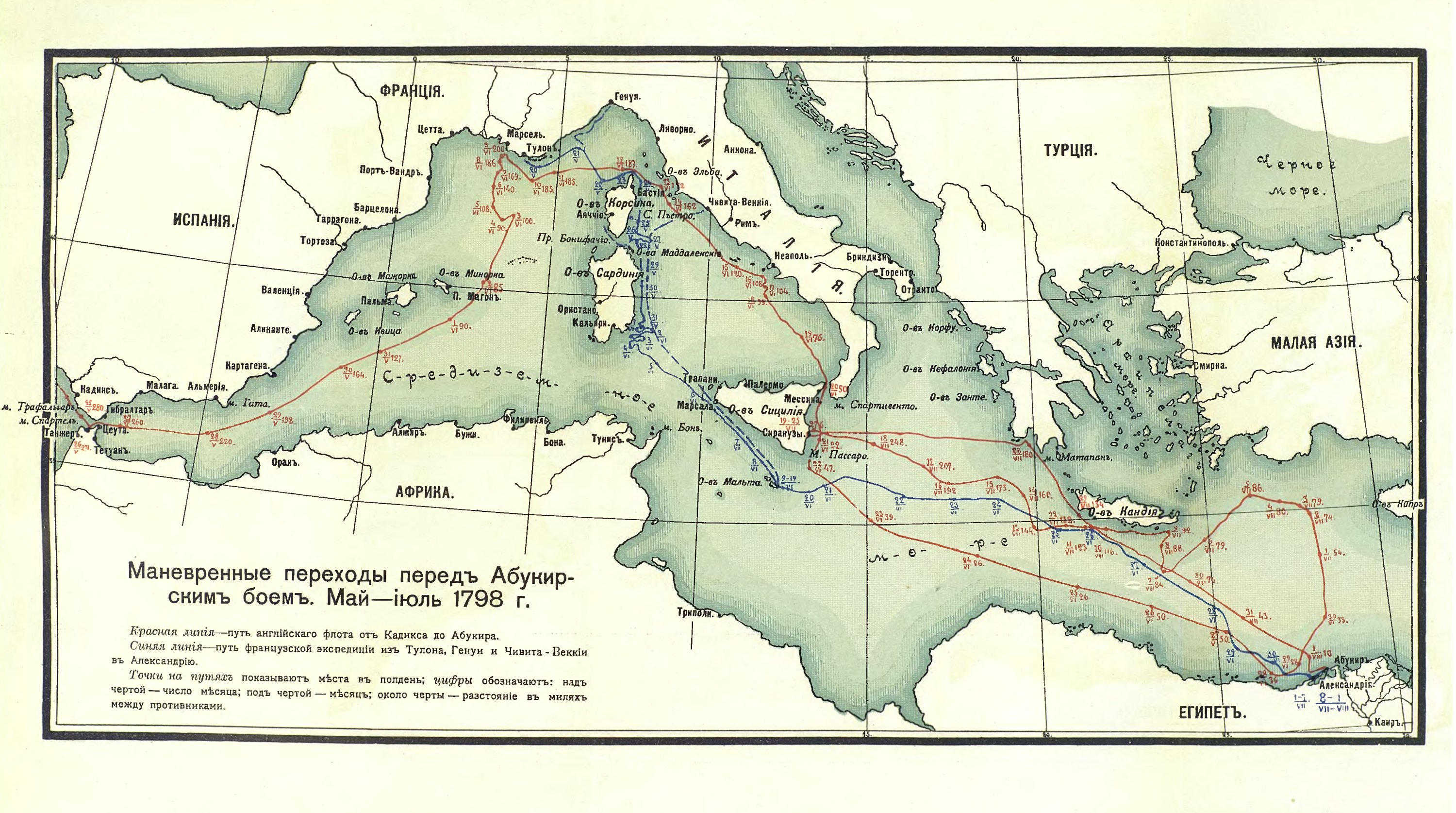 Nelson go to Abukir